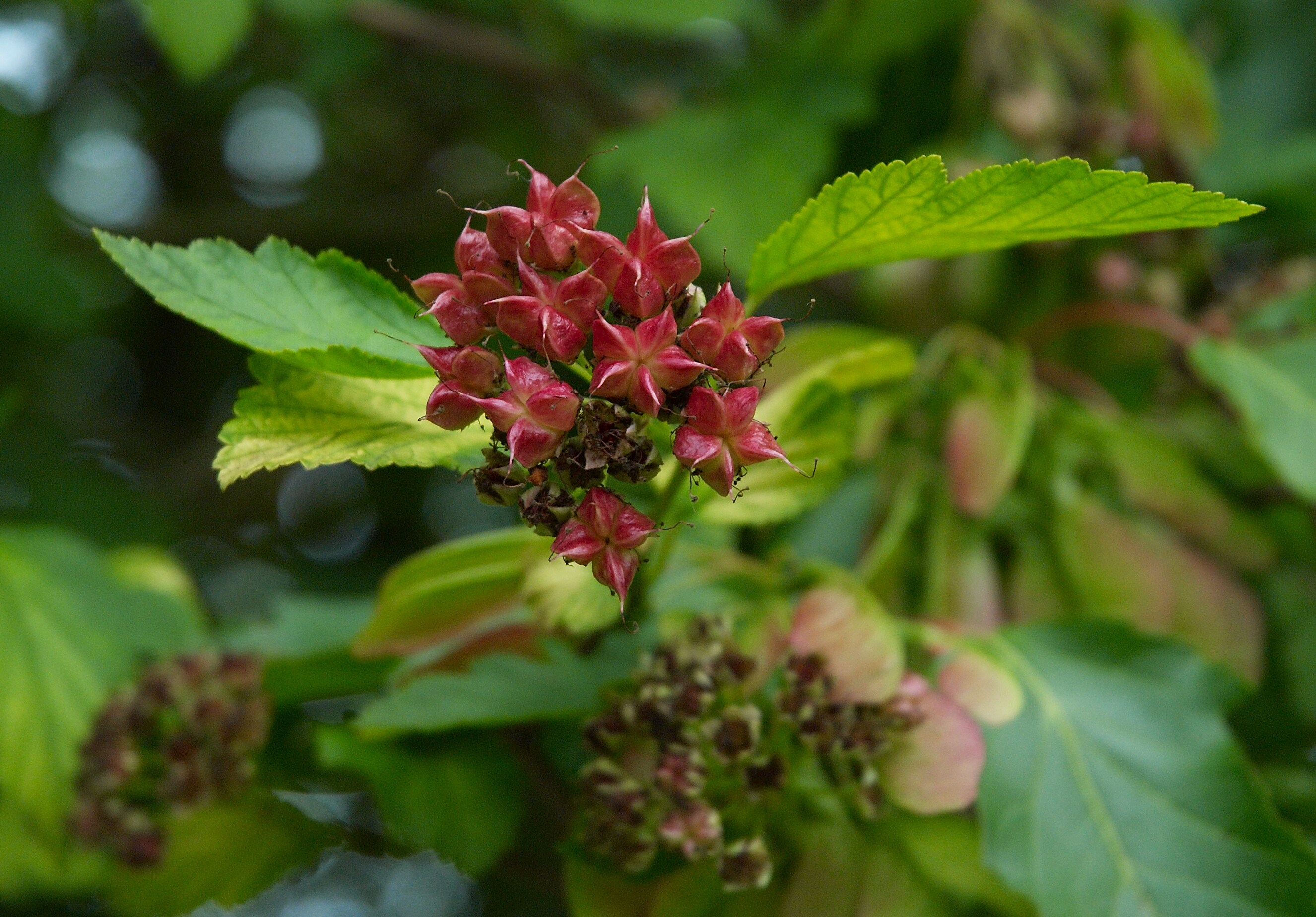 Dwarf Golden Ninebark